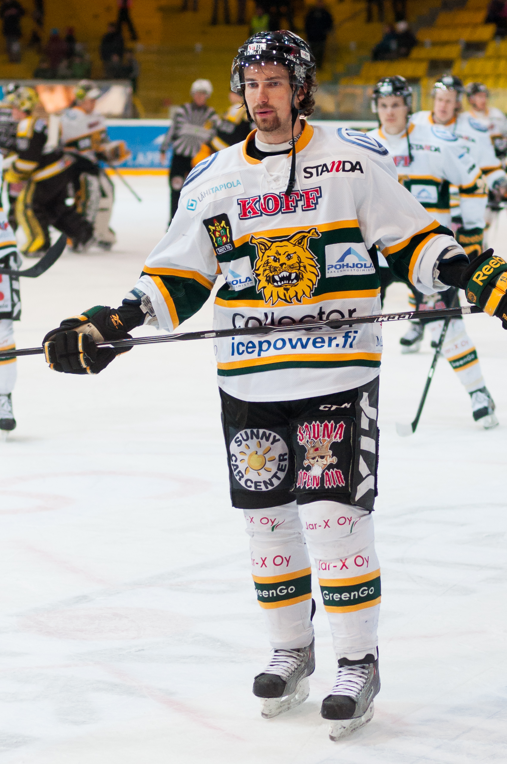 Finnish ice hockey right winger Kai Kantola of Tampereen Ilves after a game against SaiPa Lappeenranta in Lappeenranta, Finland.